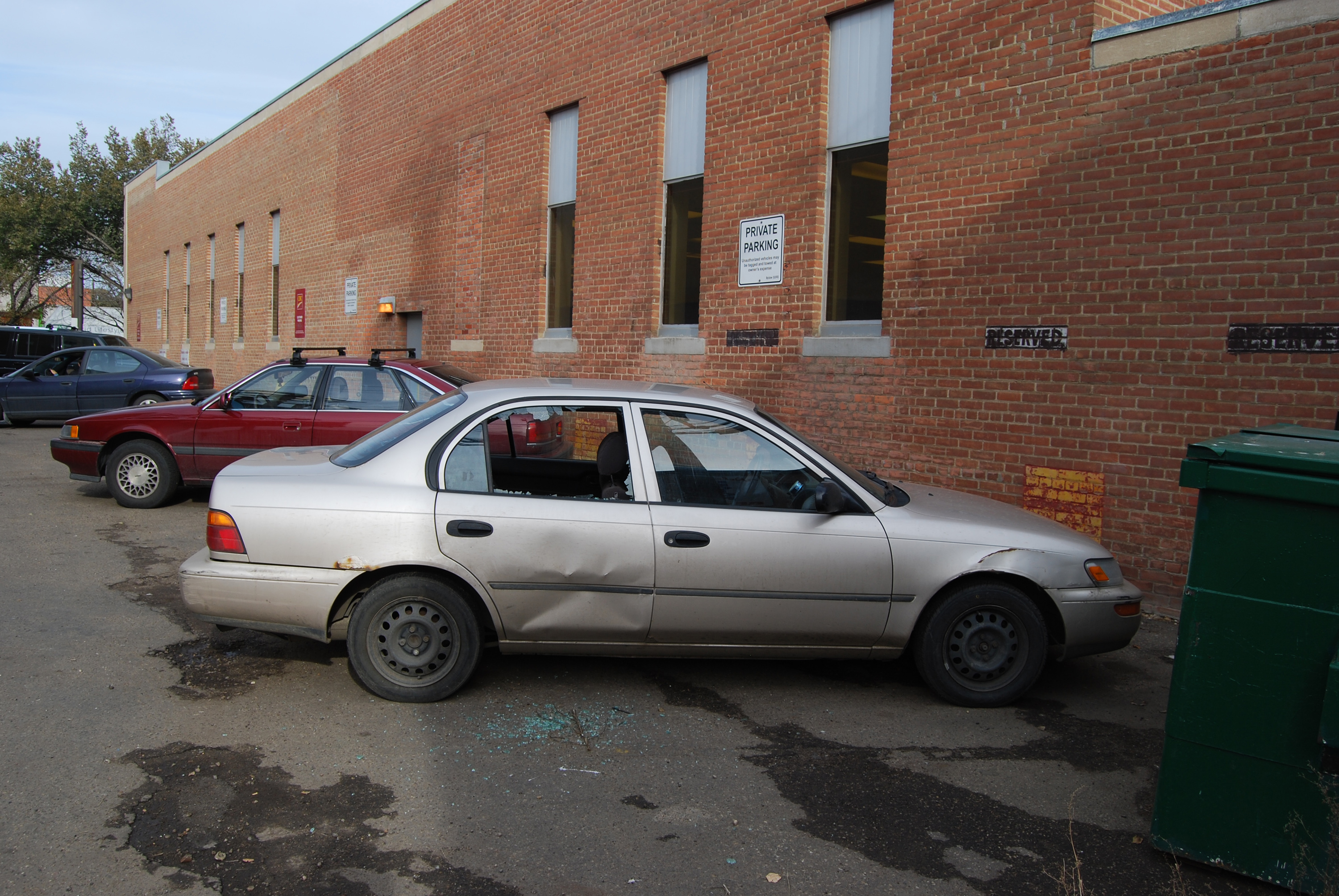 I Myke Waddy took this photo. Canada. Myke Waddy the creator of this work, hereby releases it into the public domain. Part of 3 street crime photos.